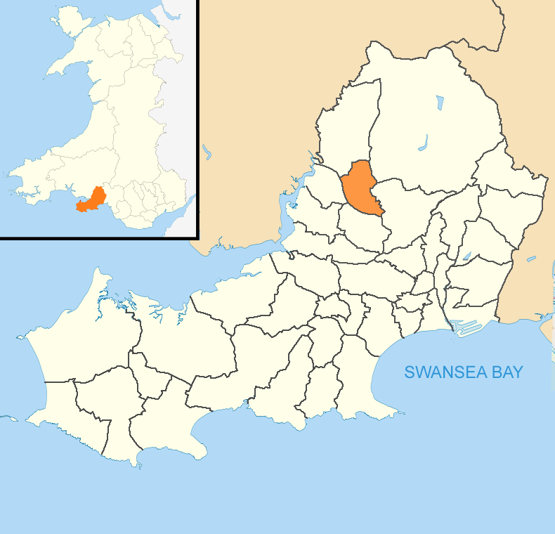 Location map of the community (civil parish) of Pontlliw and Tircoed in the City and County of Swansea, Wales